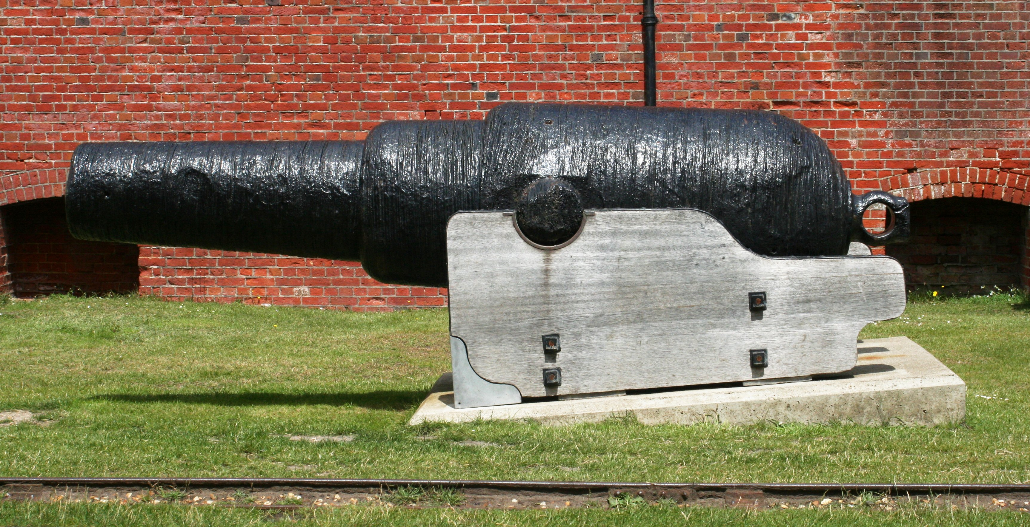 RML 9-inch 12 ton Mk III gun displayed at Hurst Castle, built circa 1867. The barrel was retrieved from the foreshore of the Isle of Wight.